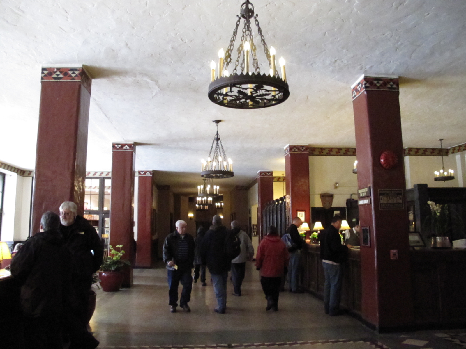 The lobby of the Ahwahnee Hotel.